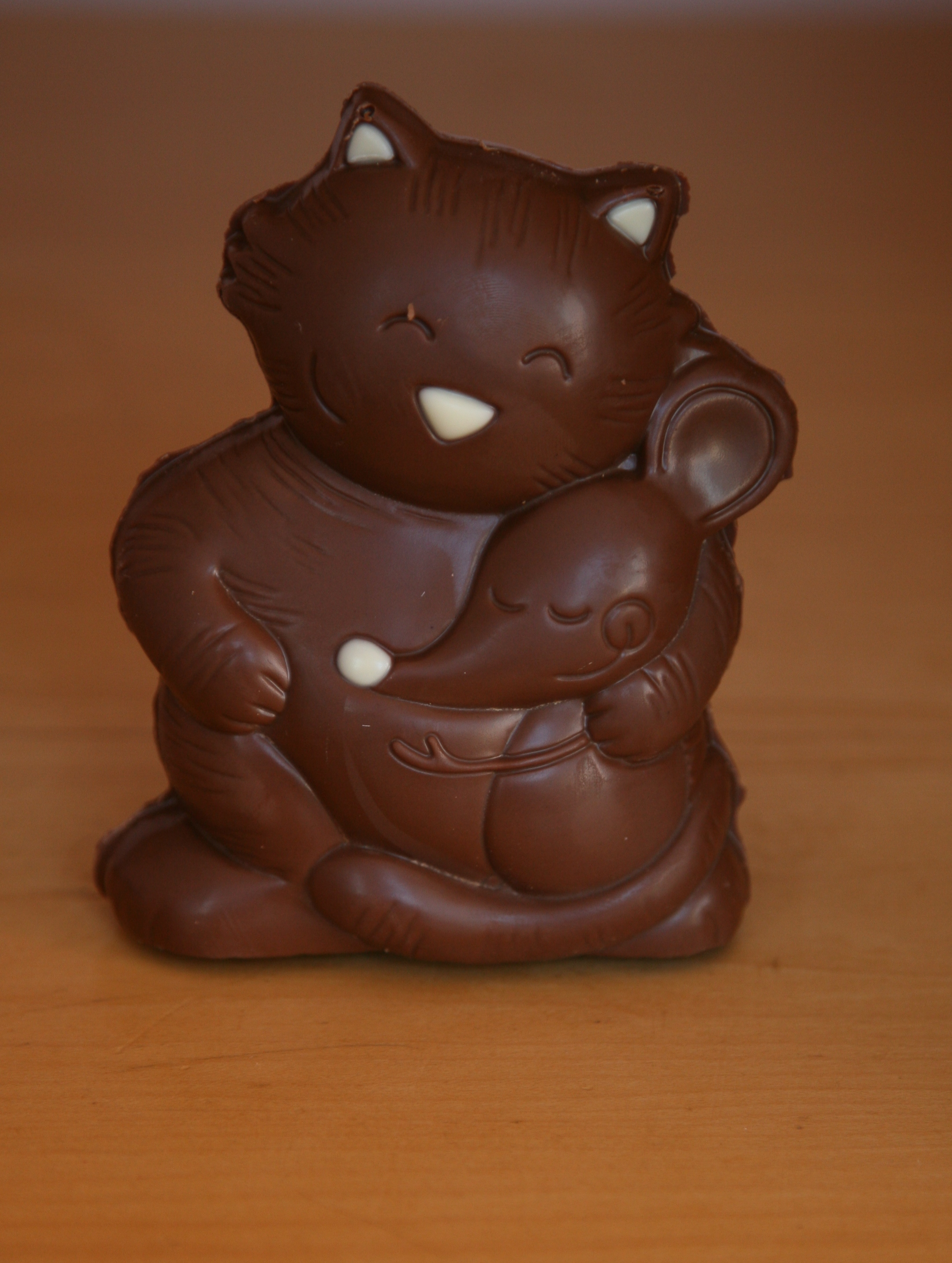 A milk chocolate cat made by Thorntons and photographed by Stratford490.